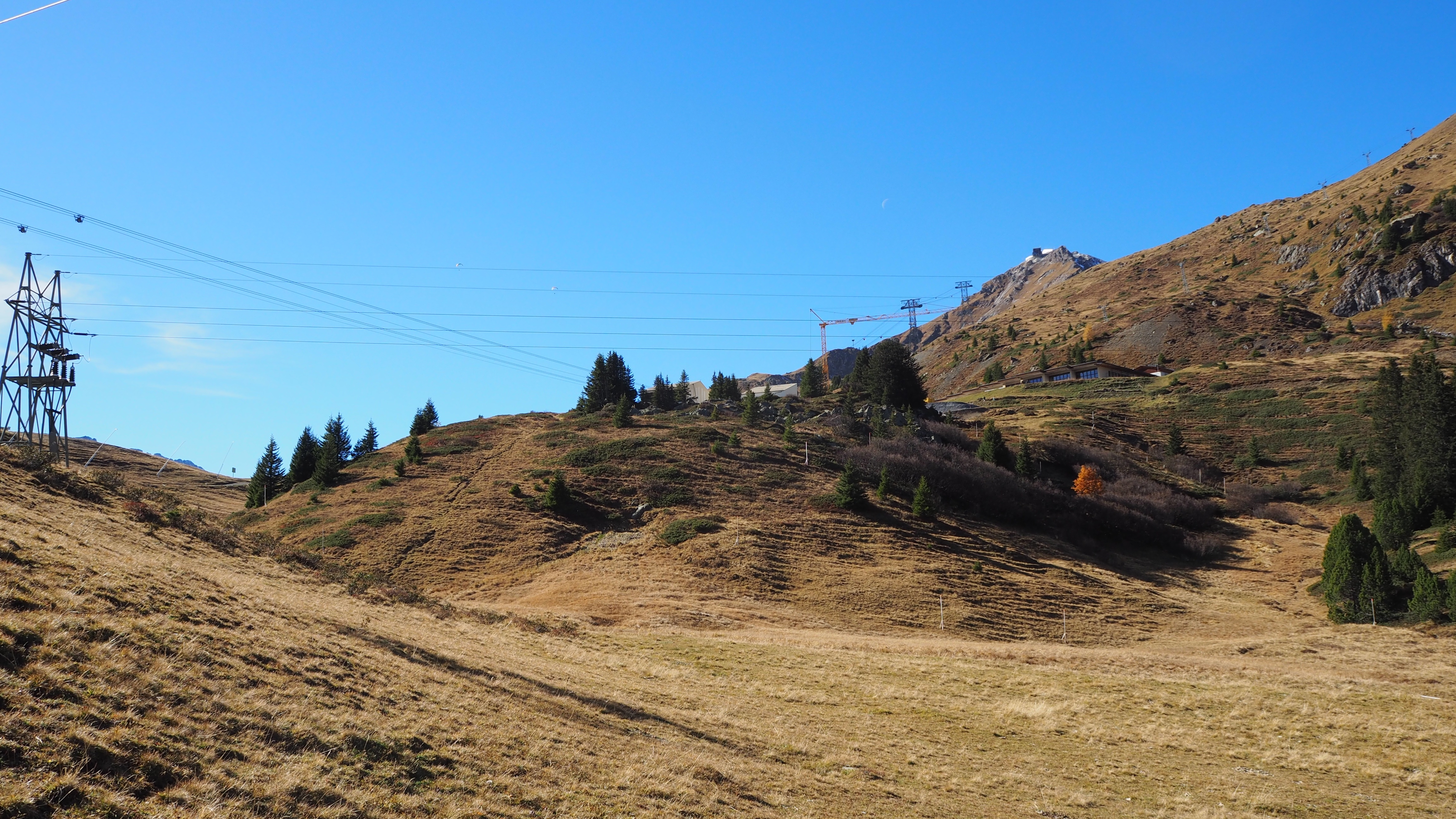 The site of Arosa Bärenland, Switzerland